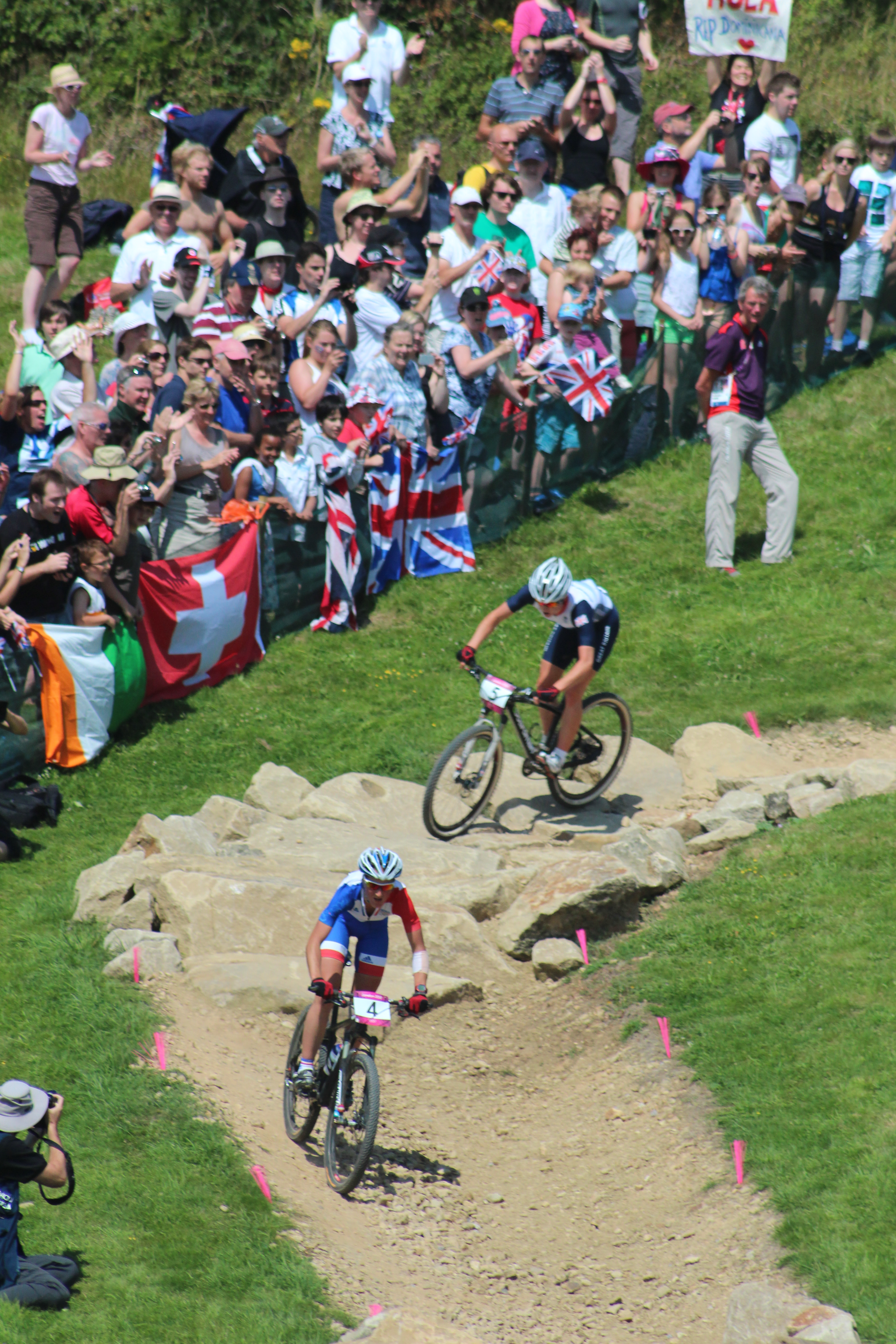 Olympic Mountain Biking - 11/12 August 2012. Hadleigh Farm.